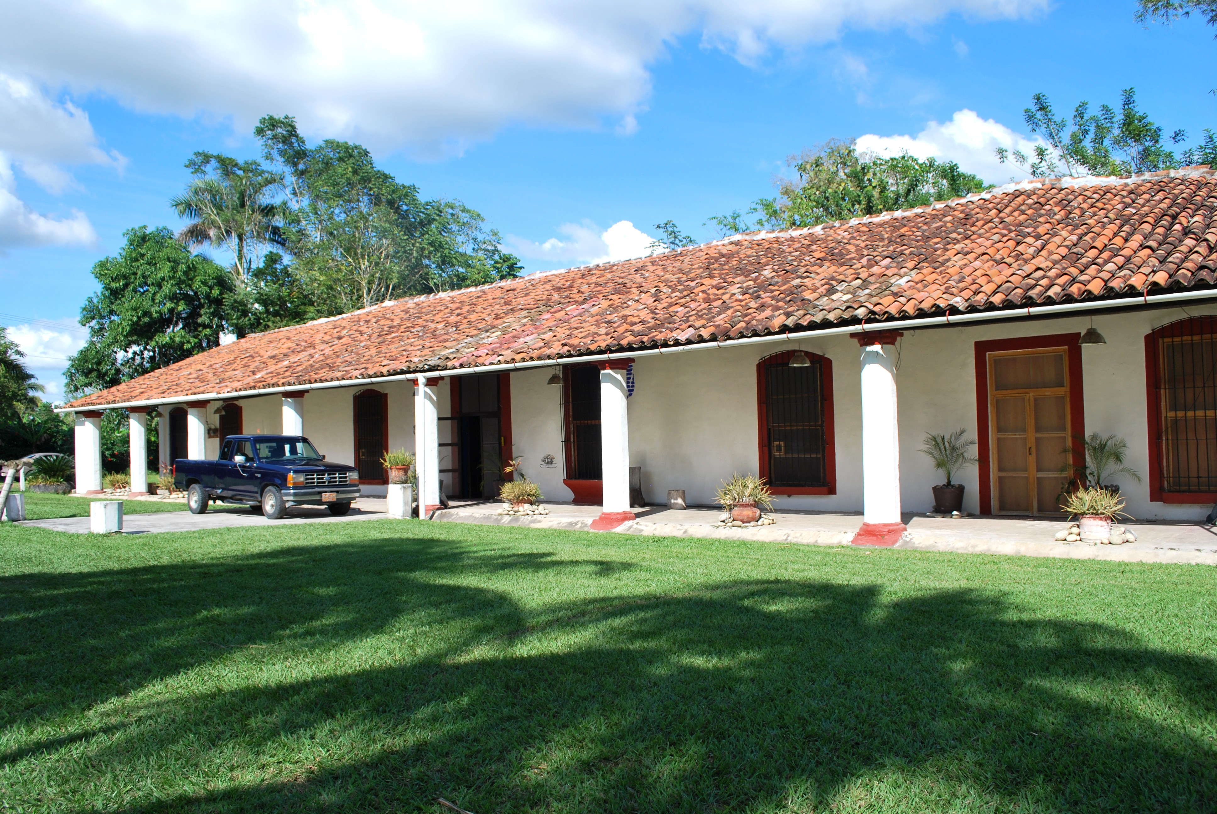 Facade of the main house of the La Chonita Hacienda in Tabasco, Mexico